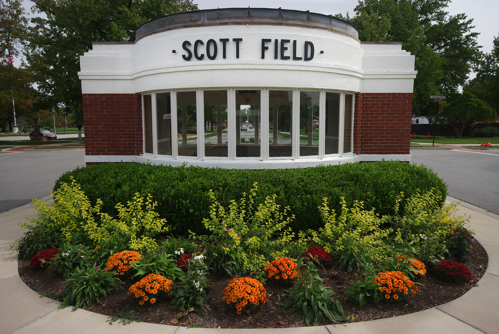 The old gate for Scott Field, now Scott Air Force Base in southern Illinois.